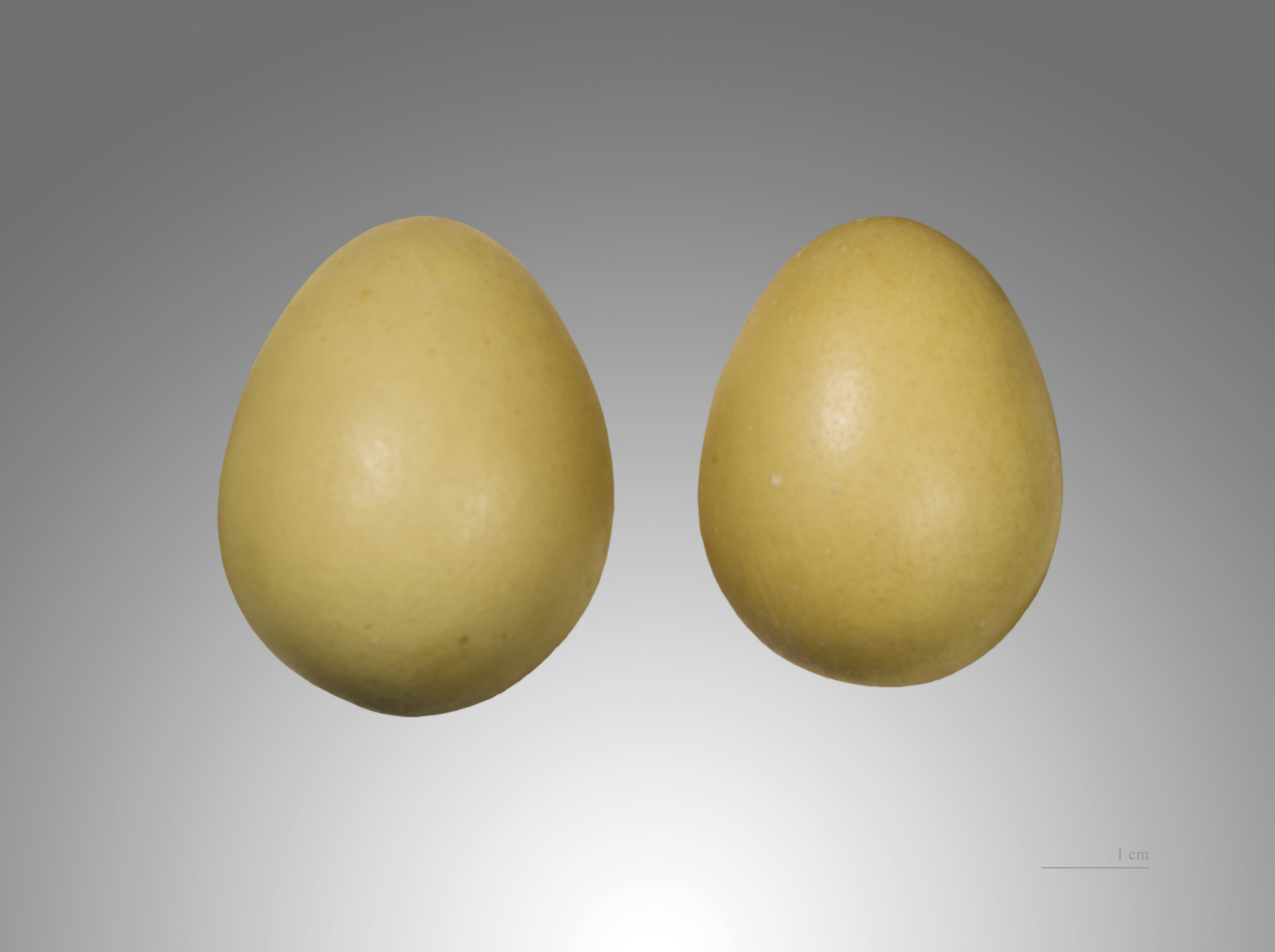 Egg of Black Francolin. Collection of Jacques Perrin de Brichambaut. Locality: Cyprus.